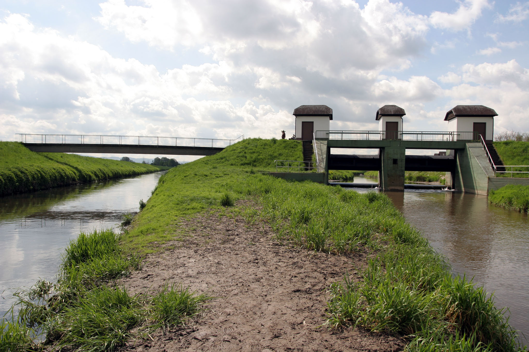 The nature protection area Weschnitzinsel, close to Lorsch (Hesse, Germany)